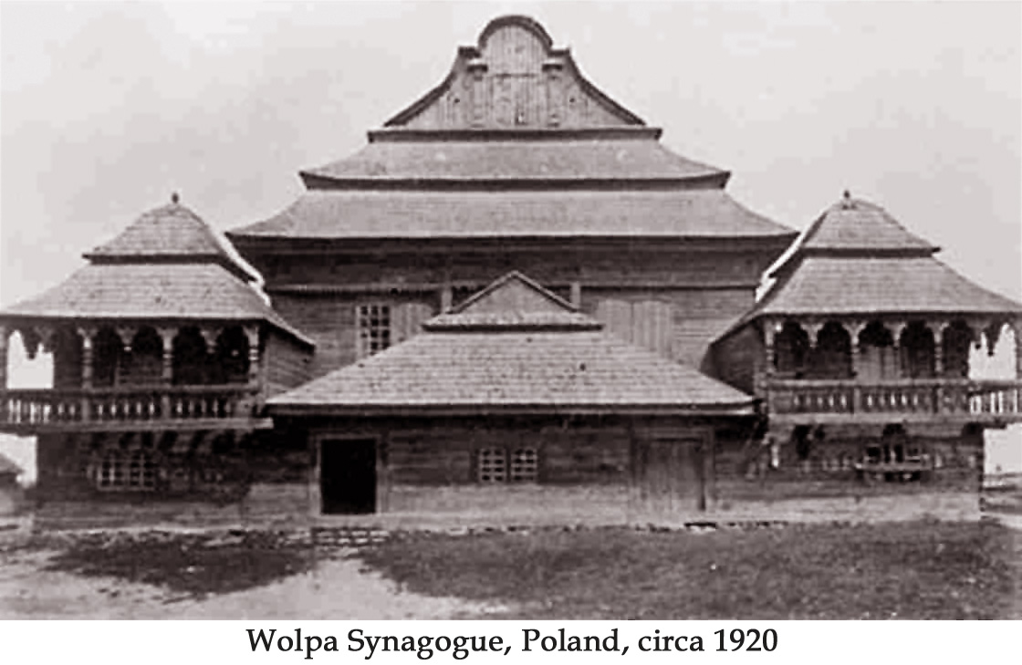 Wolpa Synagogue, Eastern Poland, circa 1920